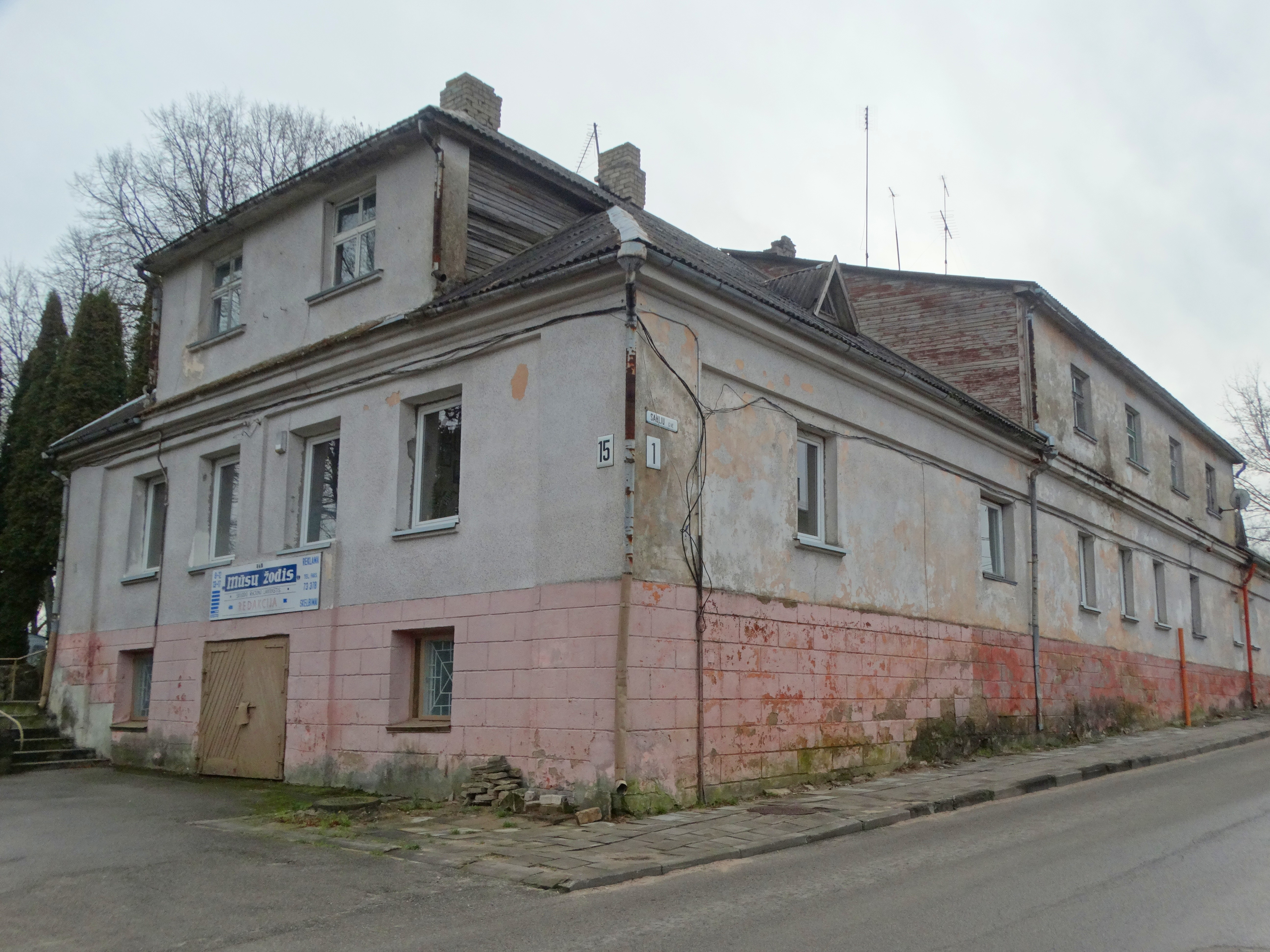 Former manor, house of hired laborers, Skuodas, Lithuania